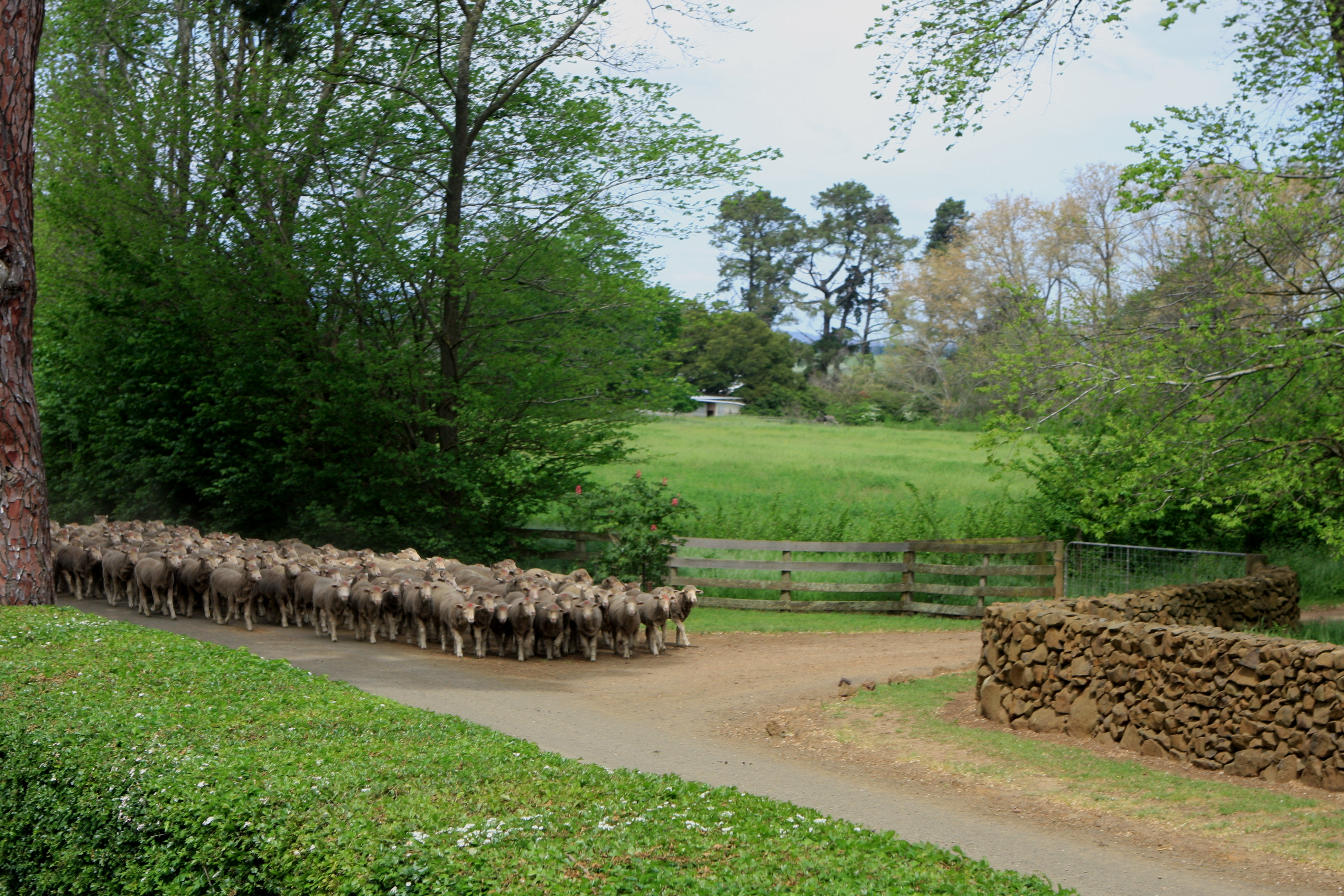 Our bus confused these sheep, and they started to scatter on the lane. The tractor plus the motorcycle were needed to get them going again. oz9 061